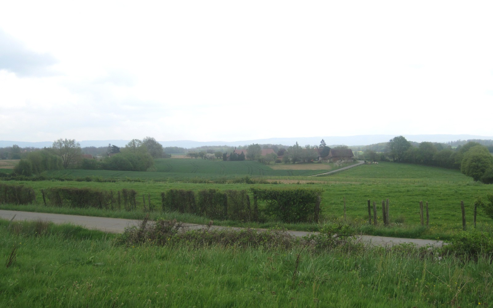 Landscape of Bresse (Montpont-en-Bresse, Saône-et-Loire, France)